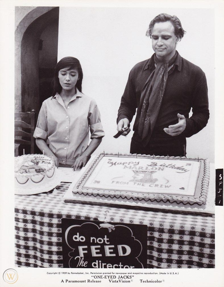 Publicity photo of Pina Pellicer and Marlon Brando for the film One-Eyed Jacks (1961).